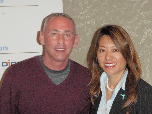 I own the copyright. I took the photo of Don Norte and Fiona Ma and gave them copies for their own us . However I told them it is still mine. It was taken with my camera in 2009 at California parking event which they both attended.